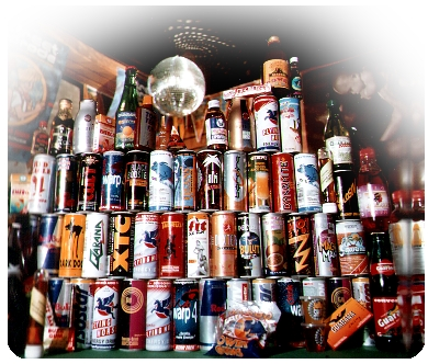 collection of many energy drinks